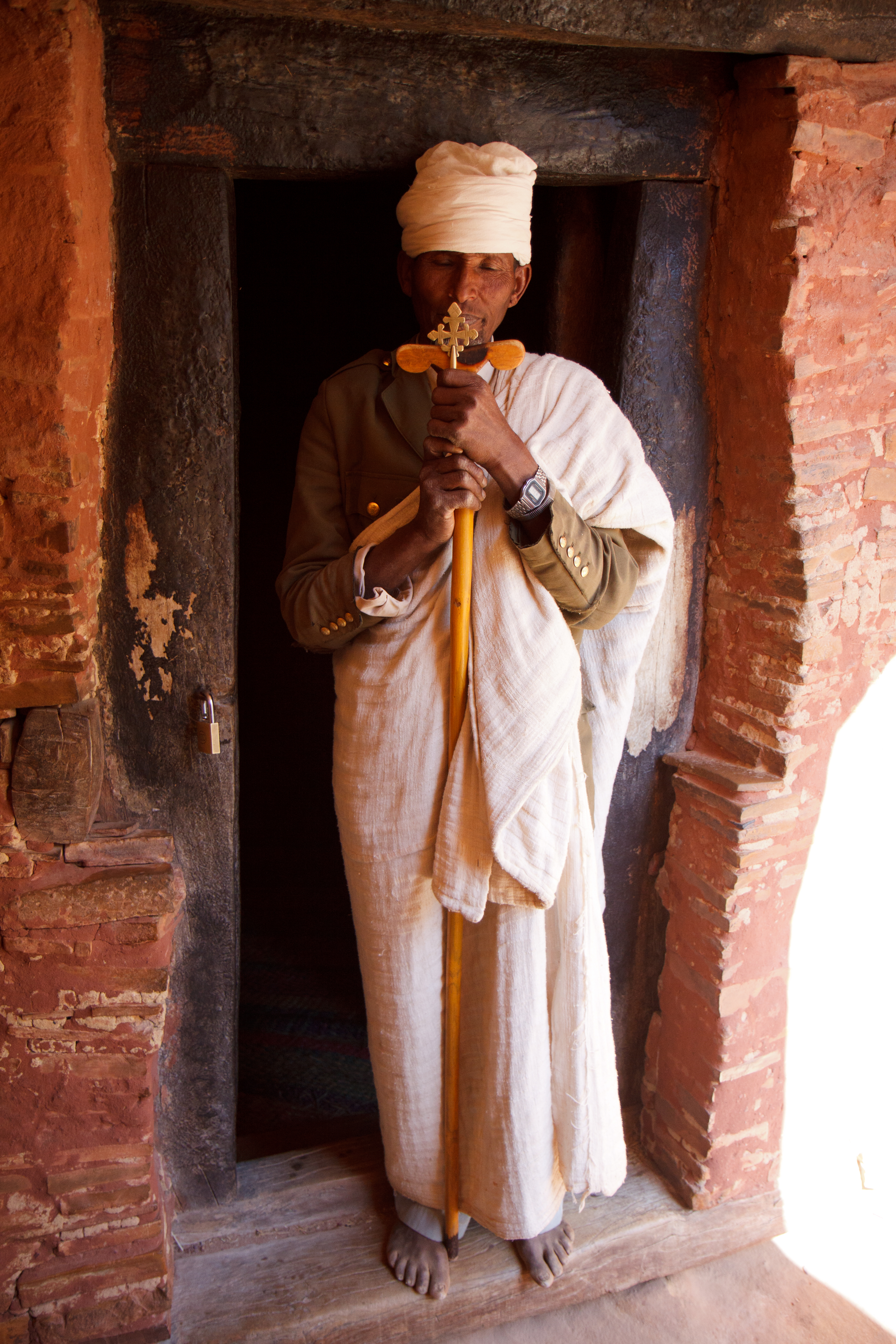 The caretaker and custodian at the entrance of Church, holding the staff